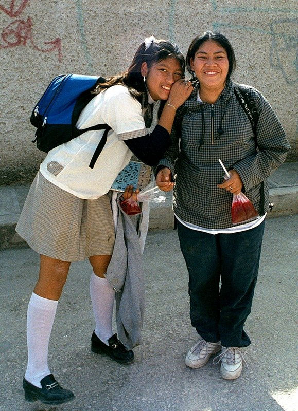 Two schoolgirls in Morelos, Cocoyoc, Mexico, drinking agua fresca. Photo Rickard Borgkvist.